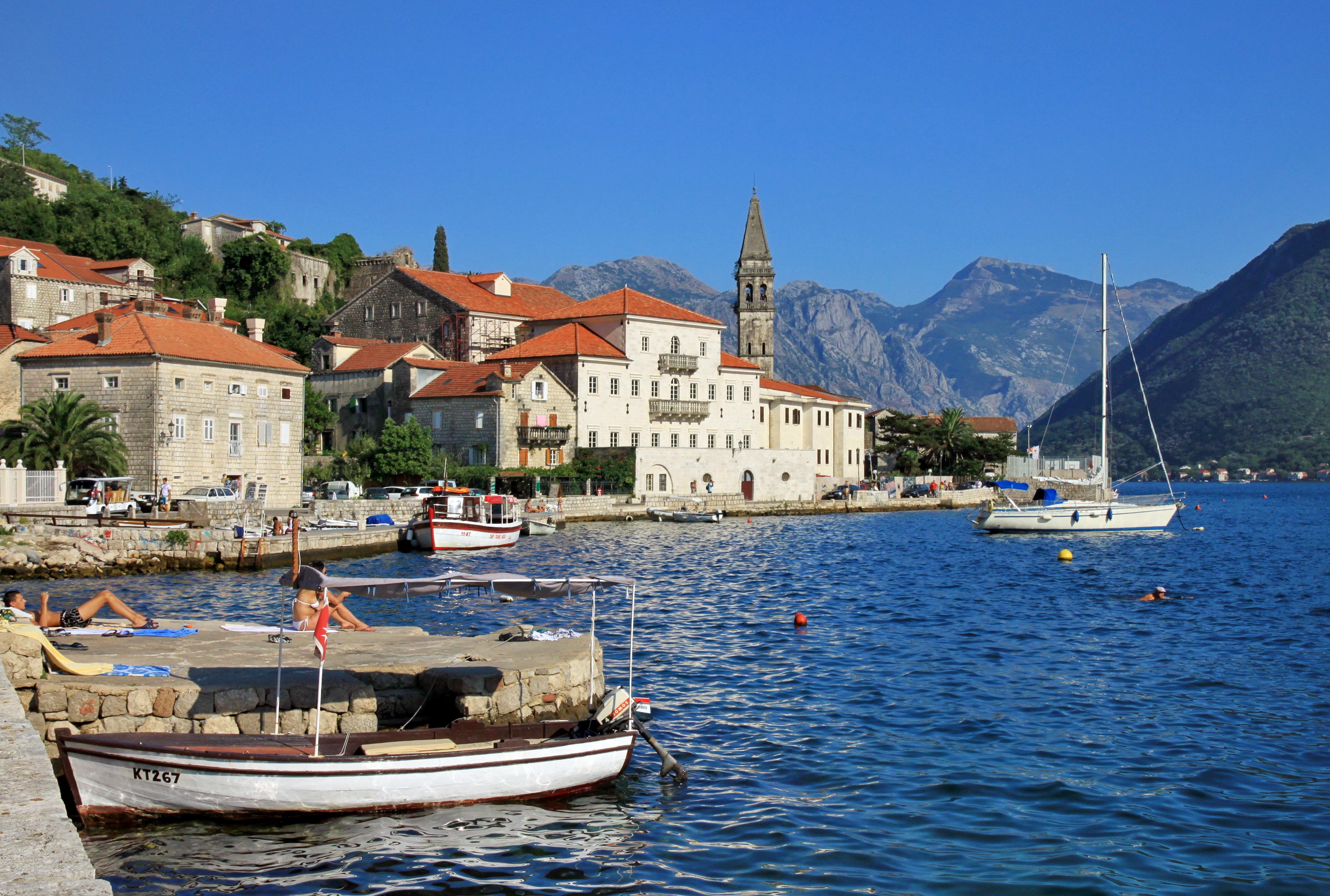 View of the town from the west. Perast, Montenegro.